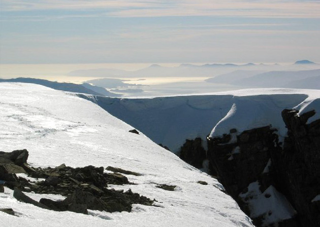 View south-west from the summit of Ben Nevis, looking over Gardyloo Gully towards Mull.